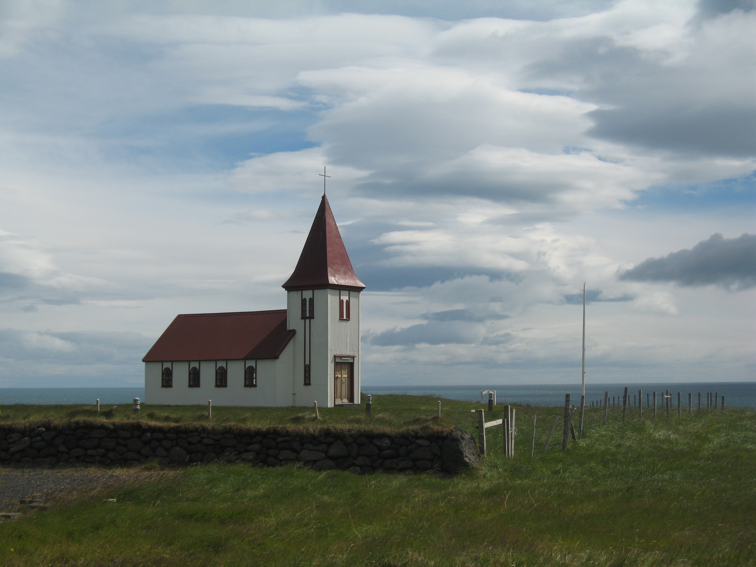 This church in the small village of Hellnar, on the south side of the Snæfellsnes peninsula in Iceland, is constructed from sheet metal over a wooden frame, a method typical of Icelandic churches of the 19th and early 20th centuries.